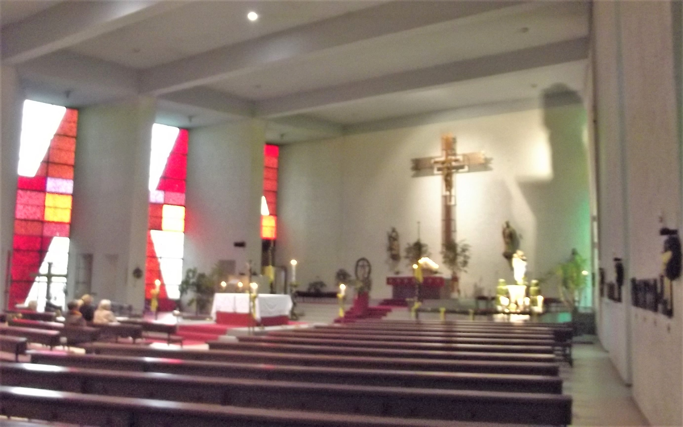 Interior of the roman catholic church in Wiesbach, Saarland